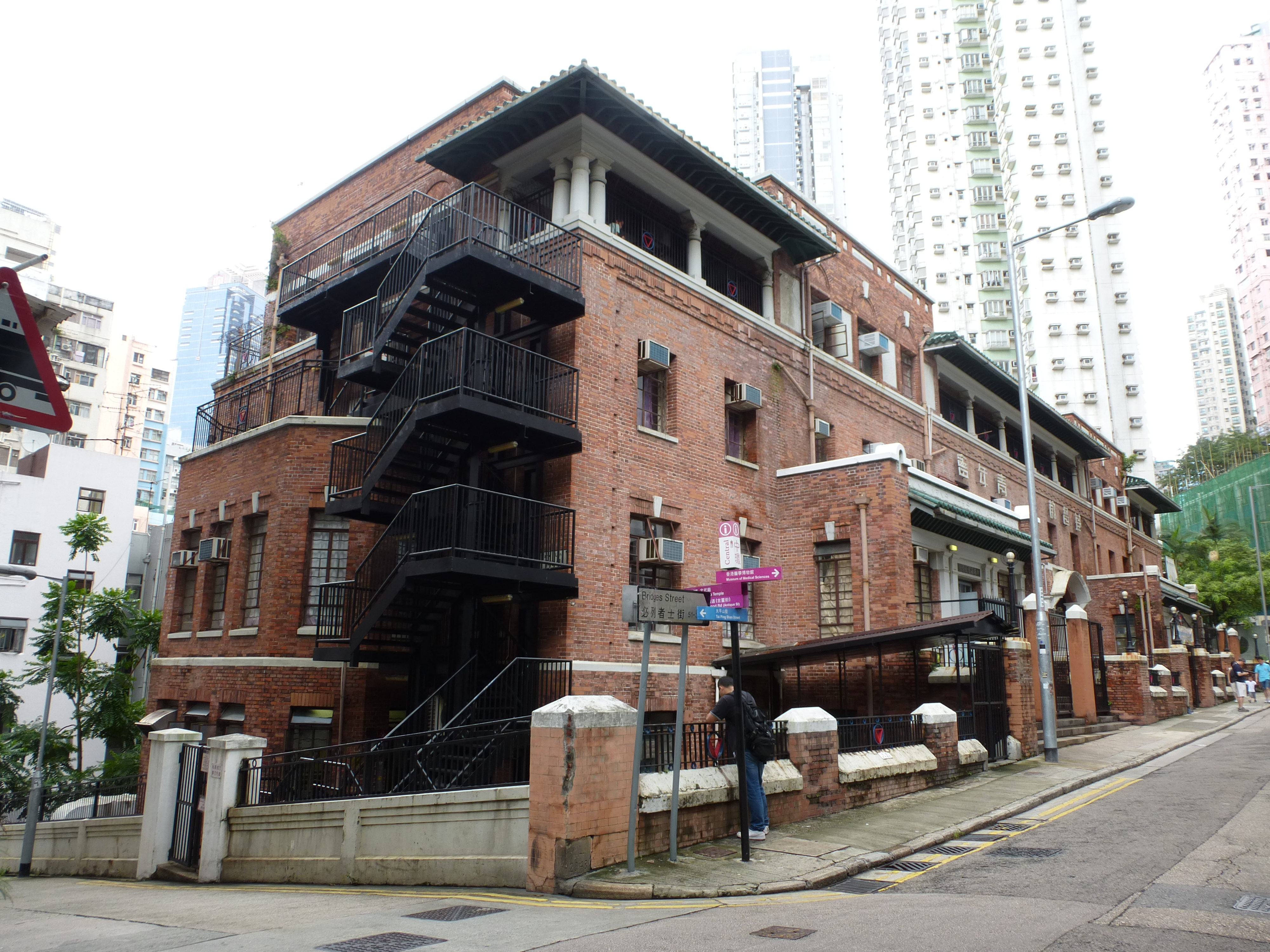 Chinese Young Men's Christian Association (Bridges Street, Hong Kong)